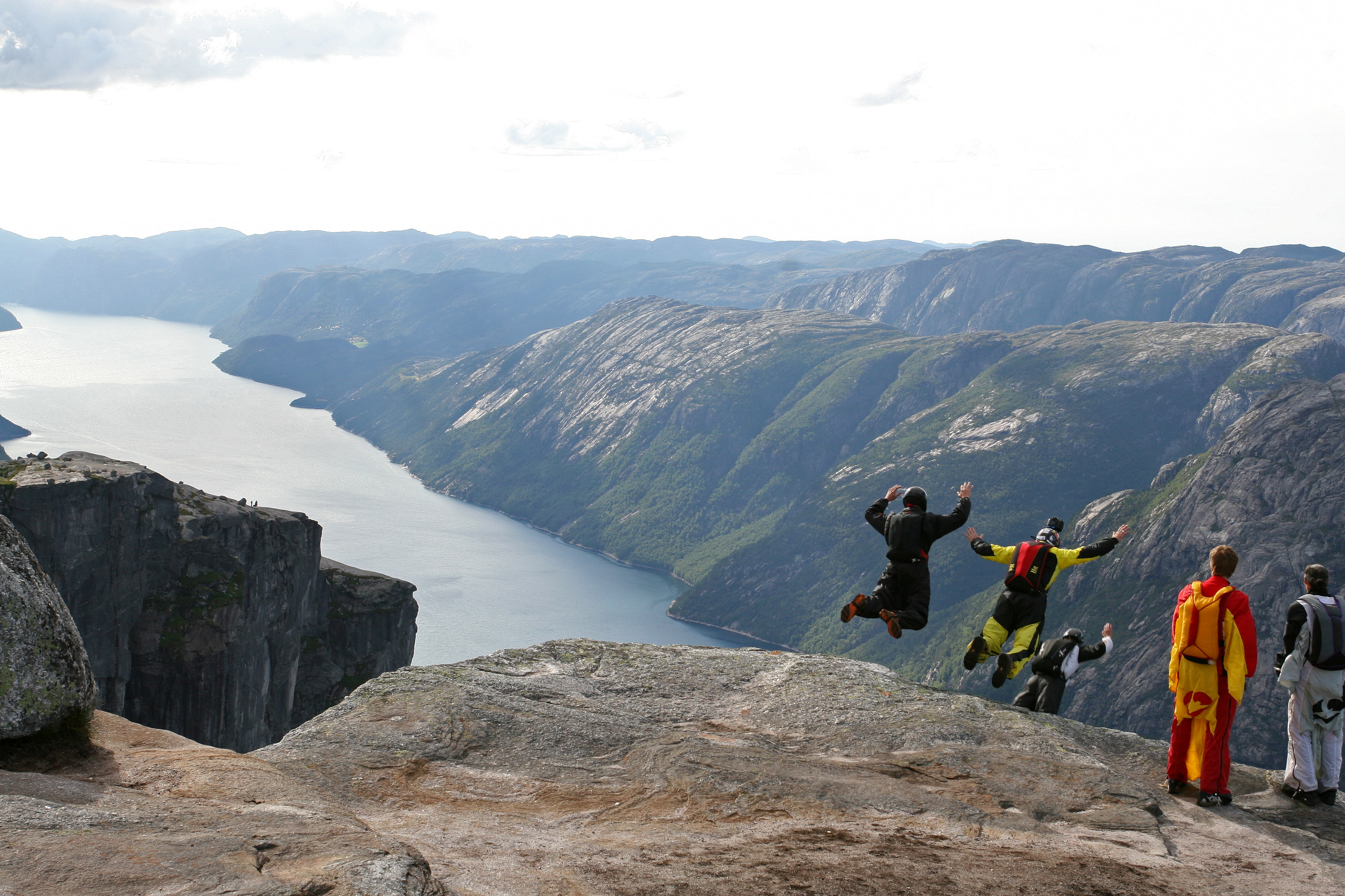 Kjerag (Norway) BASE jumping